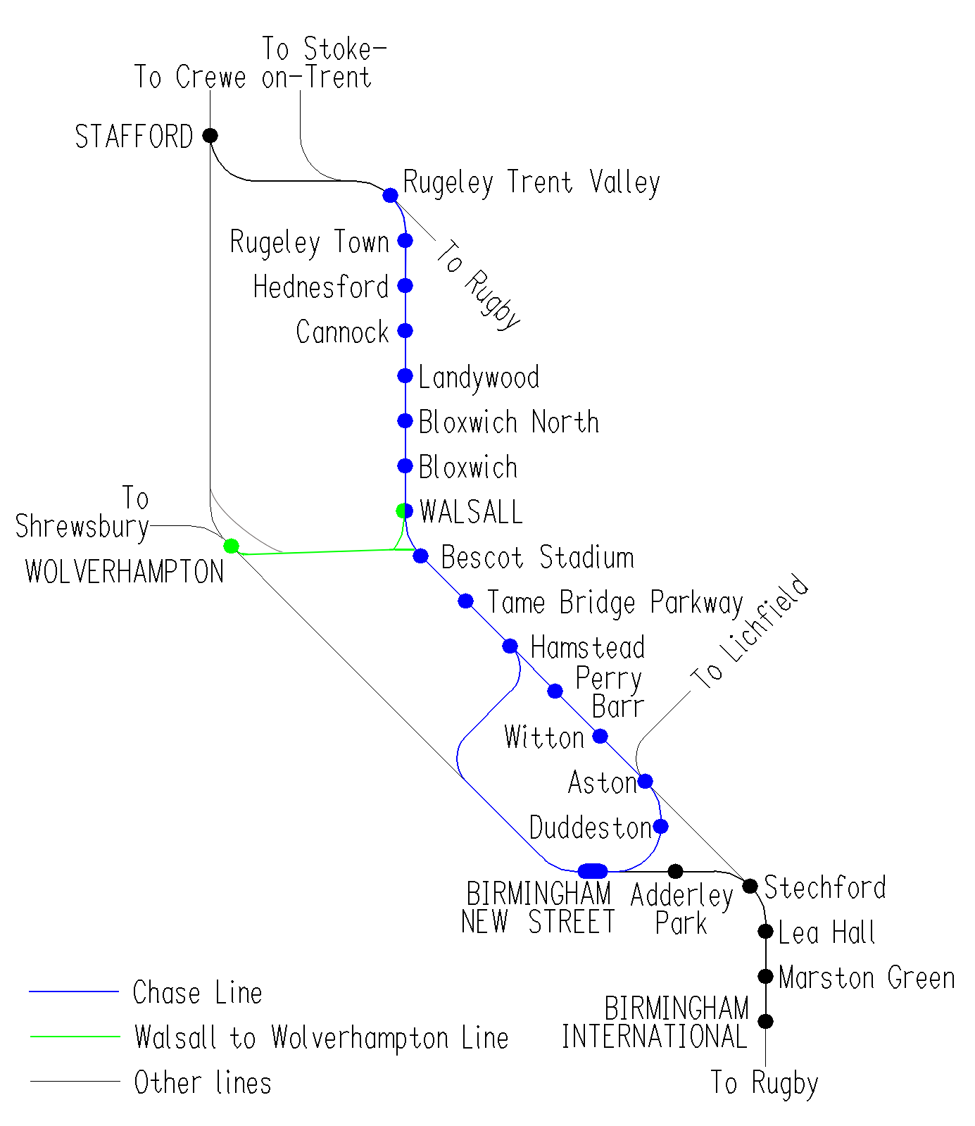 Diagrammatic map of the Chase Line; image created using MicroStation and exported as png file. See also See other images from this contributor.